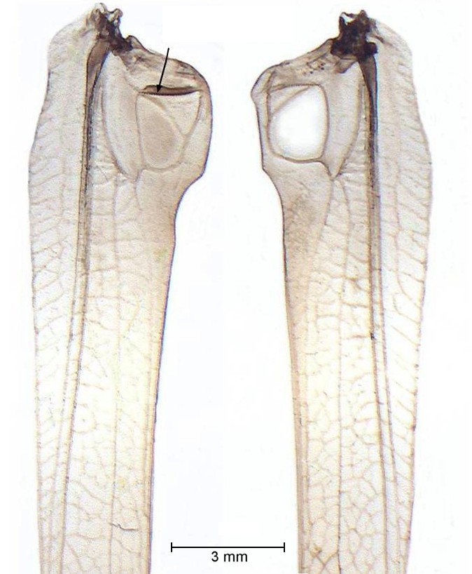 Left and right forewing of an adult male